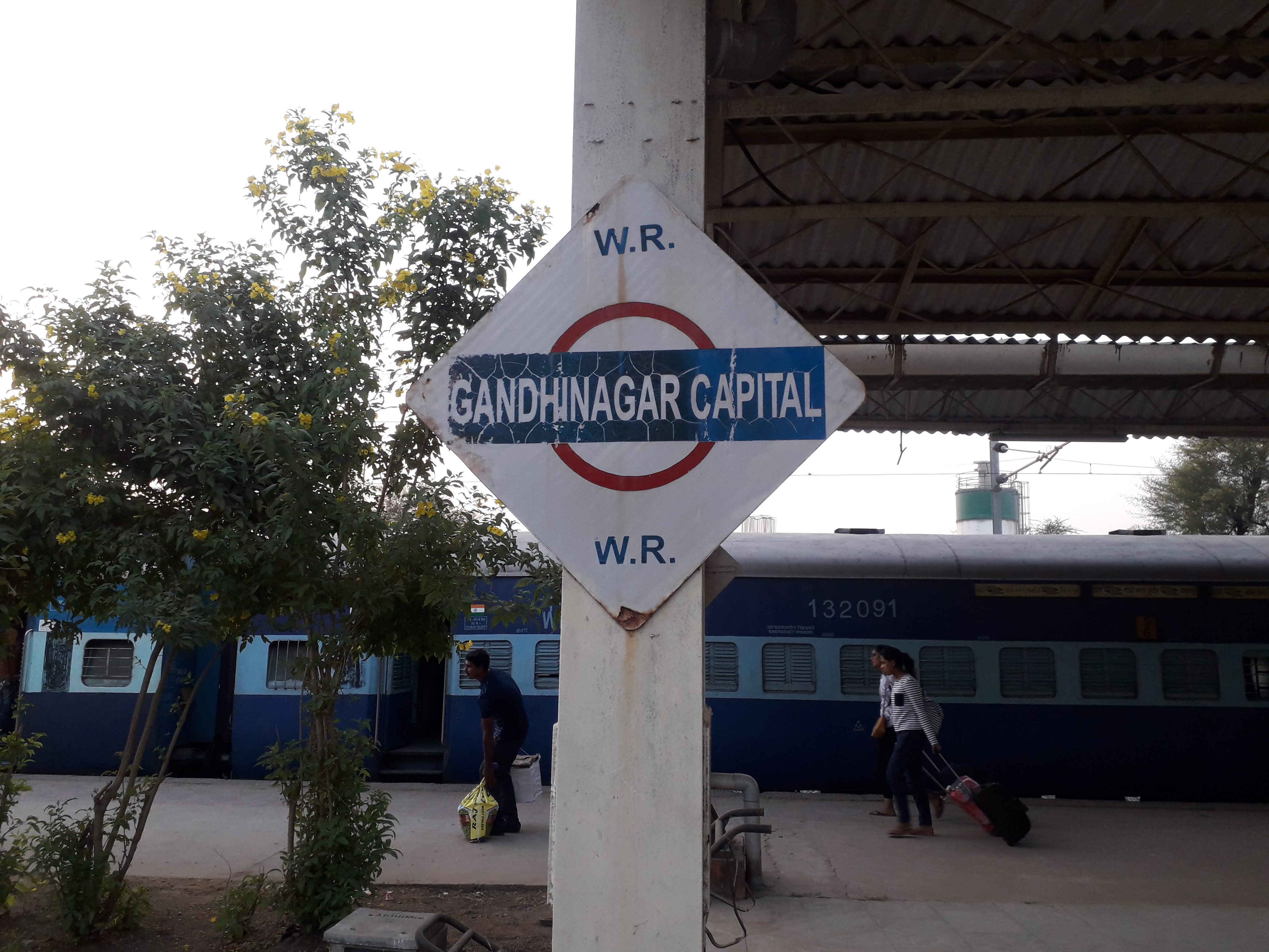 Gandhinagar Capital Gujarat - Platformboard - English